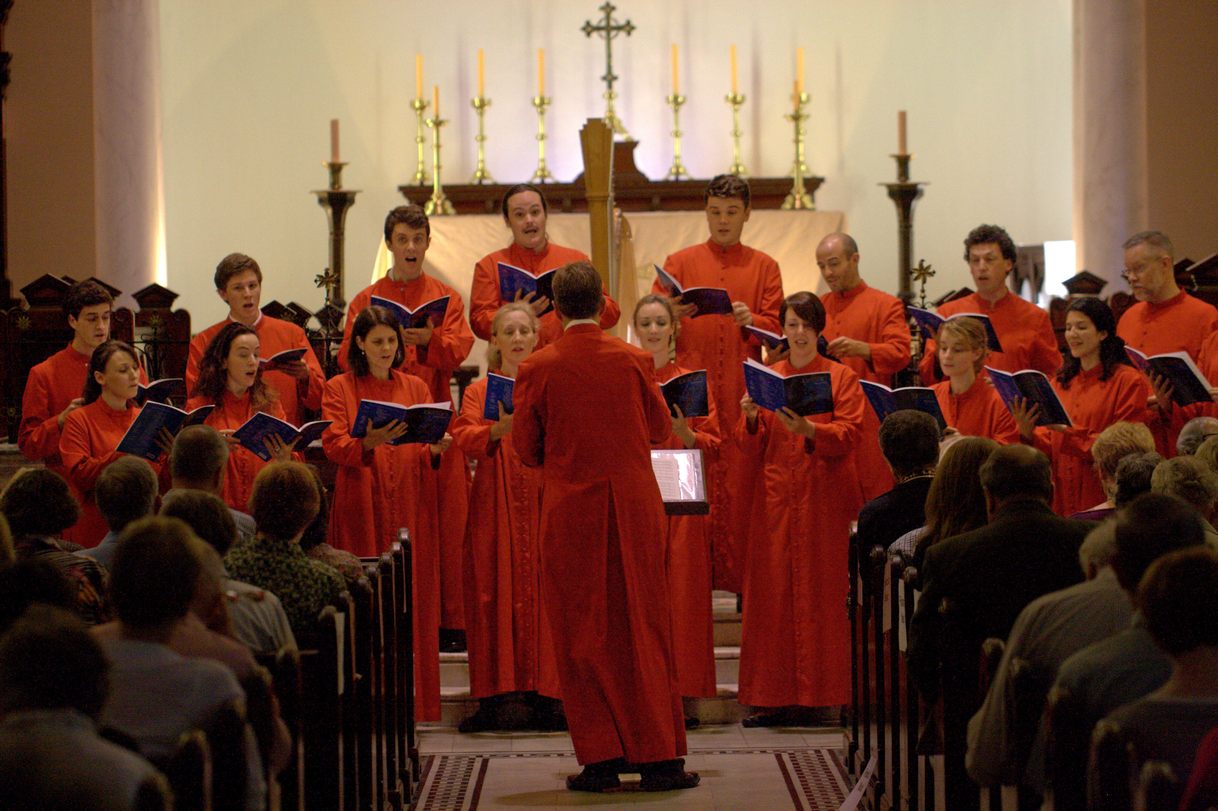 St James' Church, Sydney. This version has been selectively brightened to show the choir and make pic less dark for use in relevant article. It is half the size of the original.